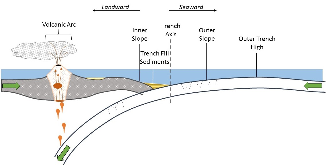 Cross-section of a subduction zone with trench features labeled.